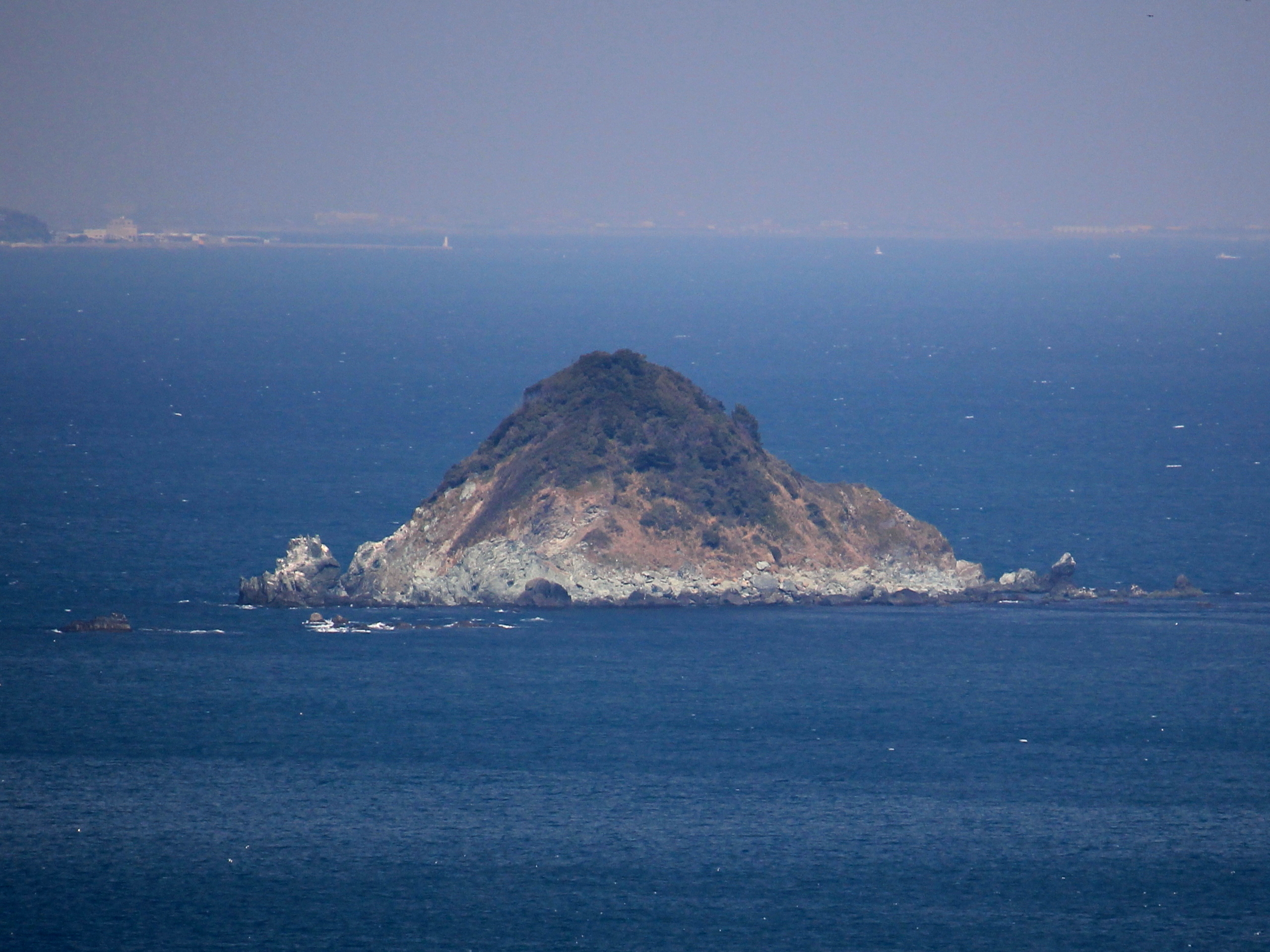 Kozukumi Island sssen from Mount Ō in Mount Suga, Toba, Mie prefecture, Japan.